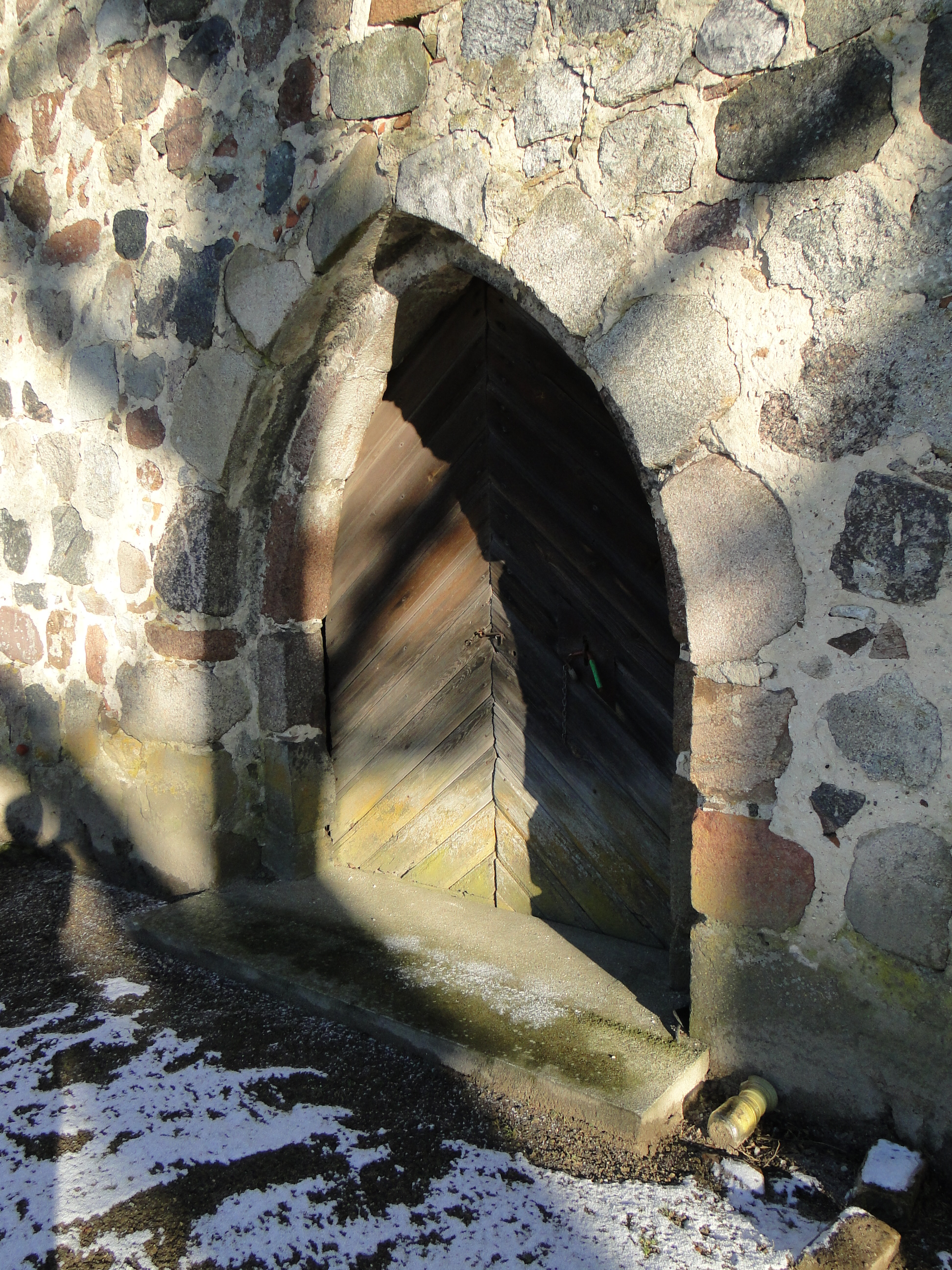 Church in Klockow, district Mecklenburg-Strelitz, Mecklenburg-Vorpommern, Germany